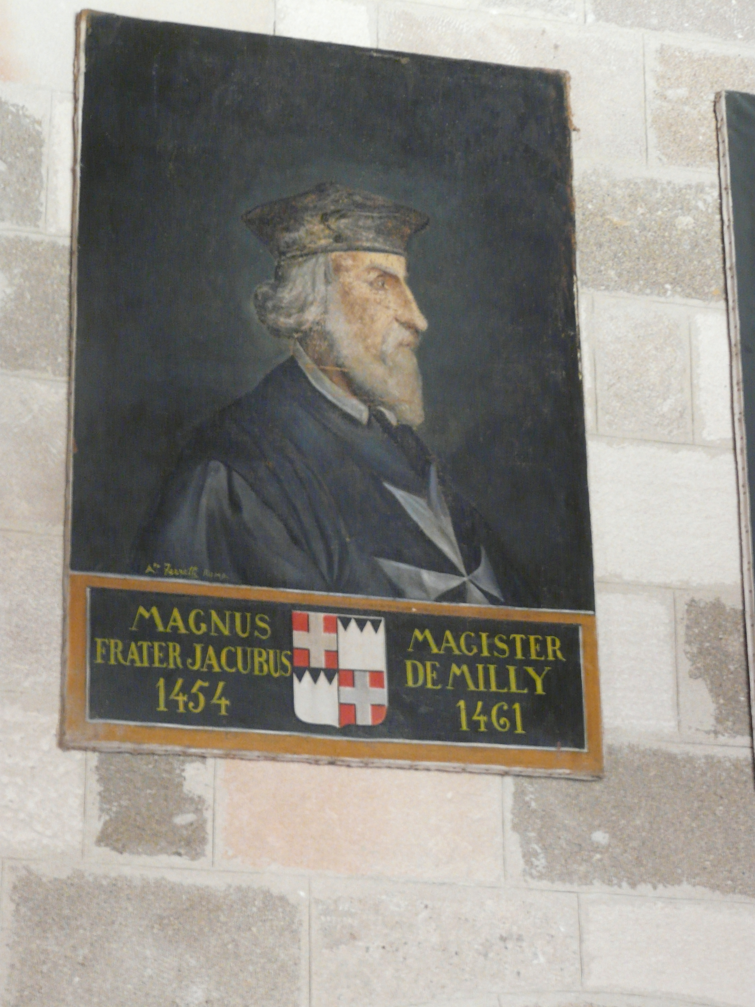 Palace of the Grand Master of the Knights of Rhodes